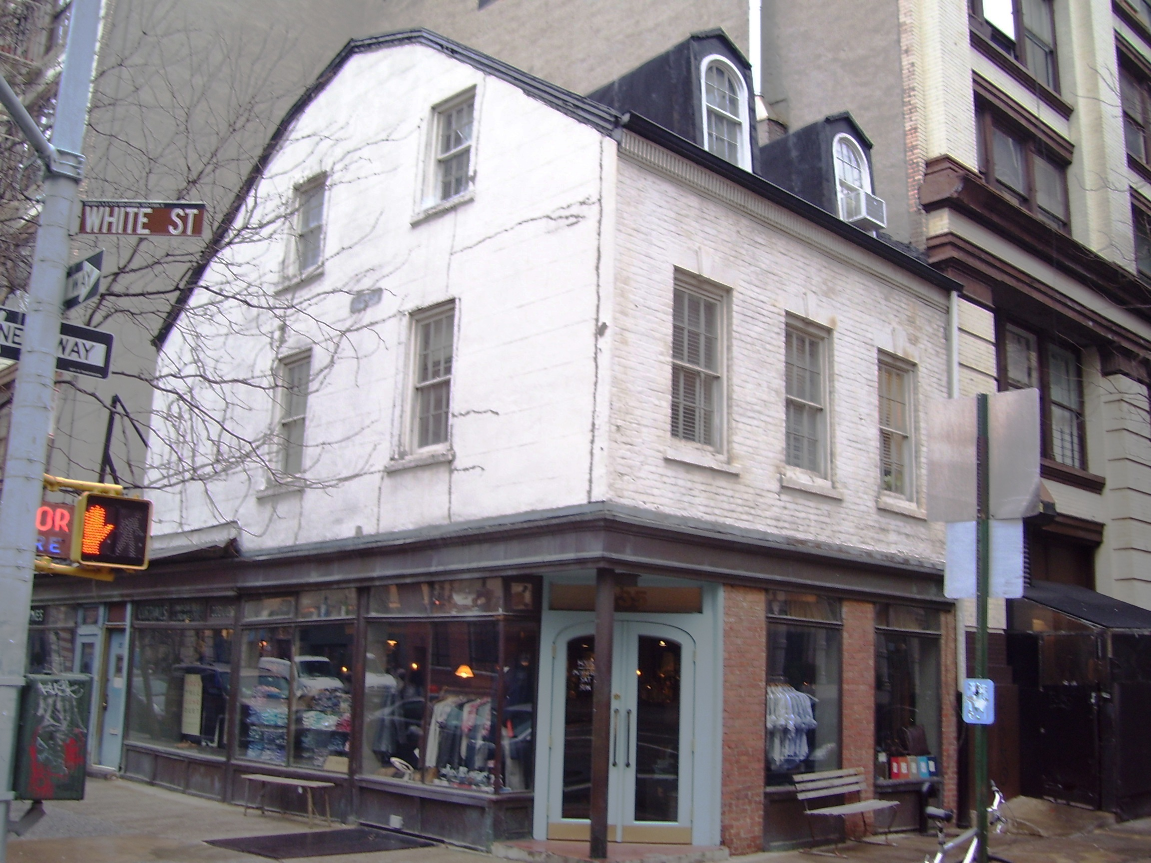 2 White Street at the corner of West Broadway in the Tribeca neighborhood of Manhattan, New York City was built as a residence in 1808-09. It is a remnant of the period when the area, then known as the Lower West Side, was developing more residences. It was designated a NYC landmark in 1966. (Source: Guide to NYC Landmarks (4th ed.))